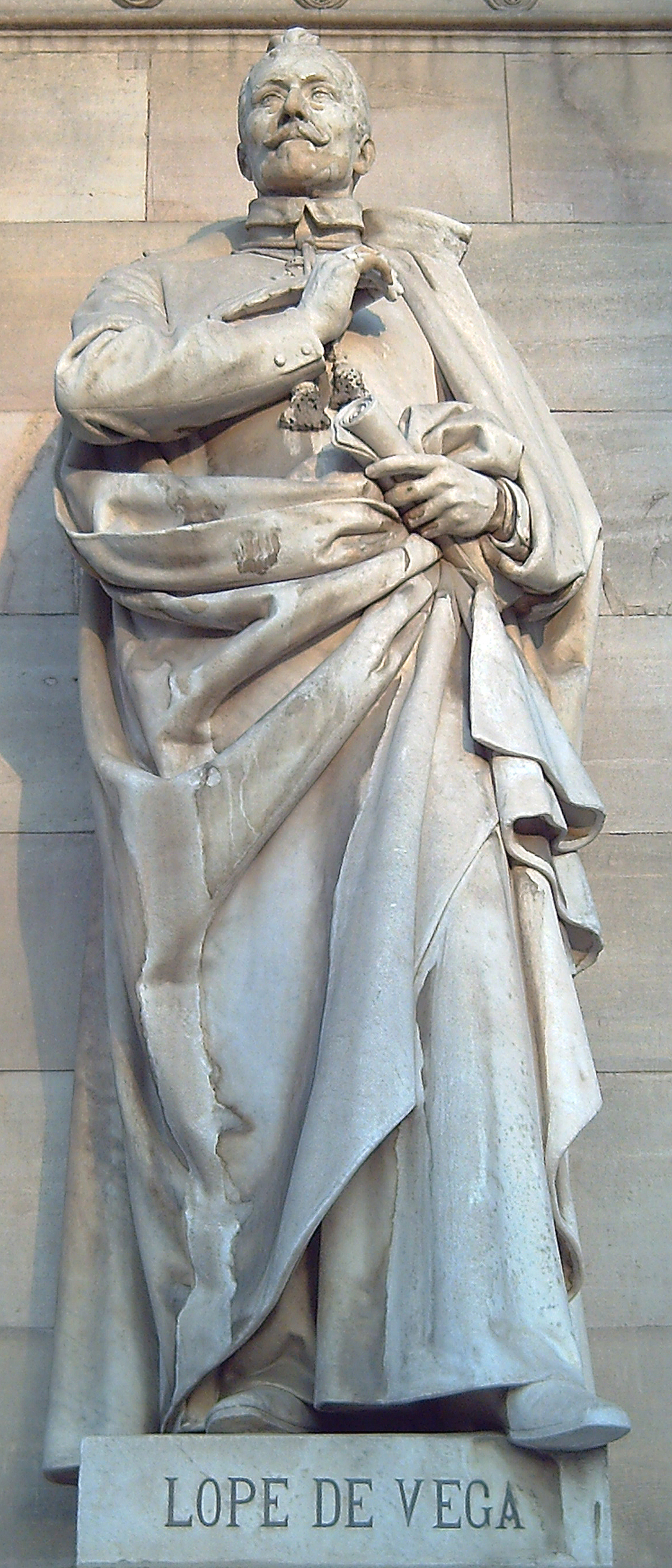 Statue of Lope de Vega (1562–1635) at the entrance of the National Library of Spain, in Madrid. Sculpted in Italian white marble by Manel Fuxà Leal (1850–1927) in 1892.